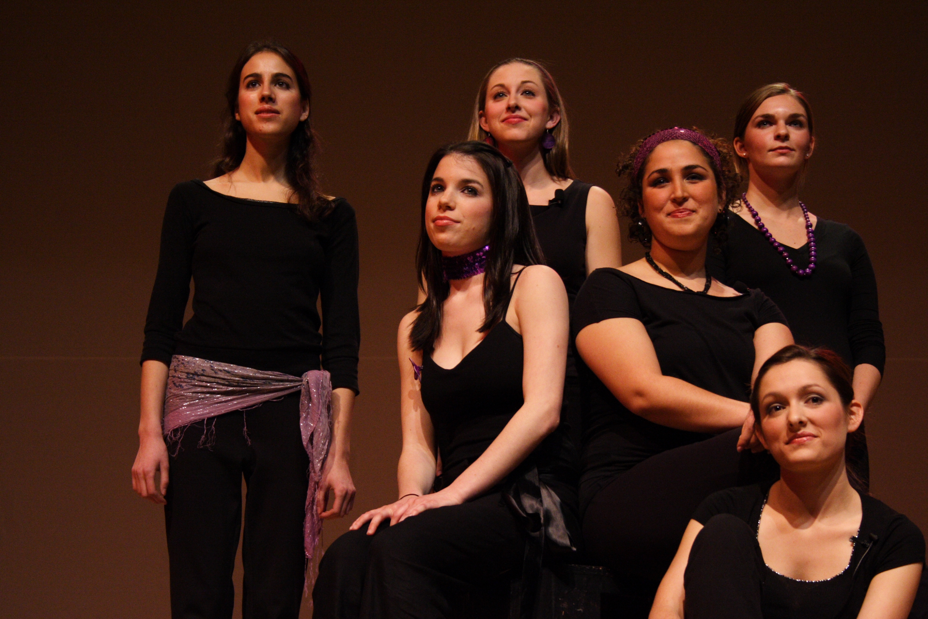 The Vagina Monologues